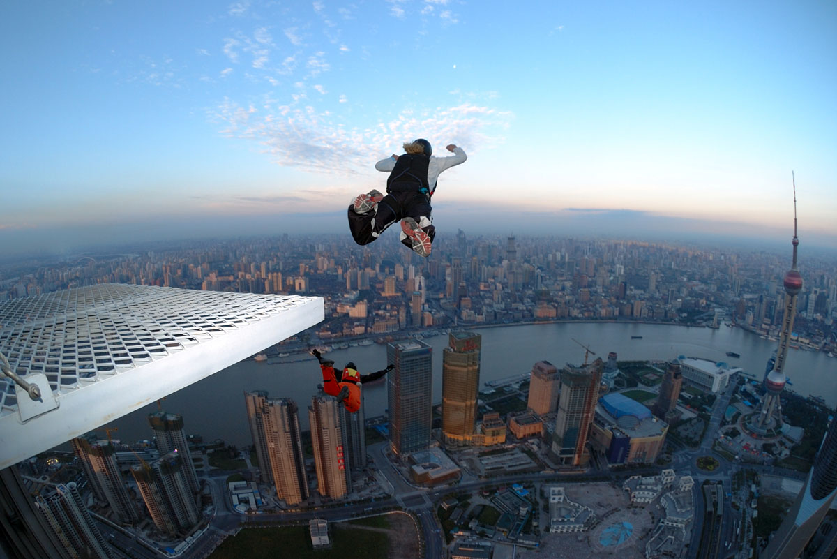 BASE Building